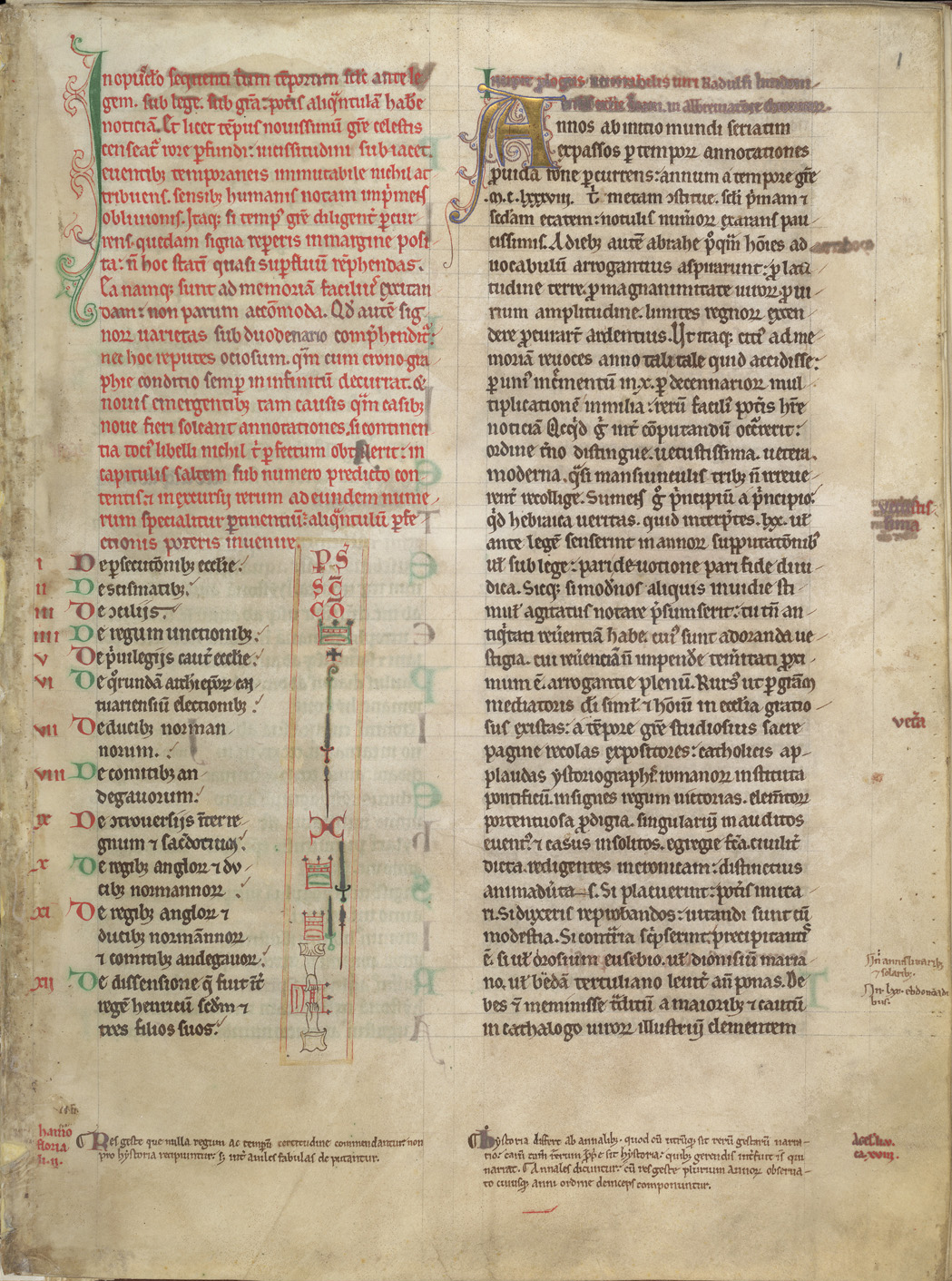 Opening page of a manuscript of Diceto's historical works, including a table of signs and images used in the text to mark some of the subjects treated in the text, with explanations of their meanings. "The lower half of the left column is occupied by a key to understanding a series of twelve visual indexing symbols, which function rather like computer icons: they are small easily recognised mnemonic symbols, which are placed next to passages of text to give an indication of its content. Thus, a crown represents the anointing of a king, a sword represents the dukes of Normandy, and a crown being grasped by two hands from opposite sides represents the arguments between King Henry II and his three sons." - BL Online Gallery webpage [1].